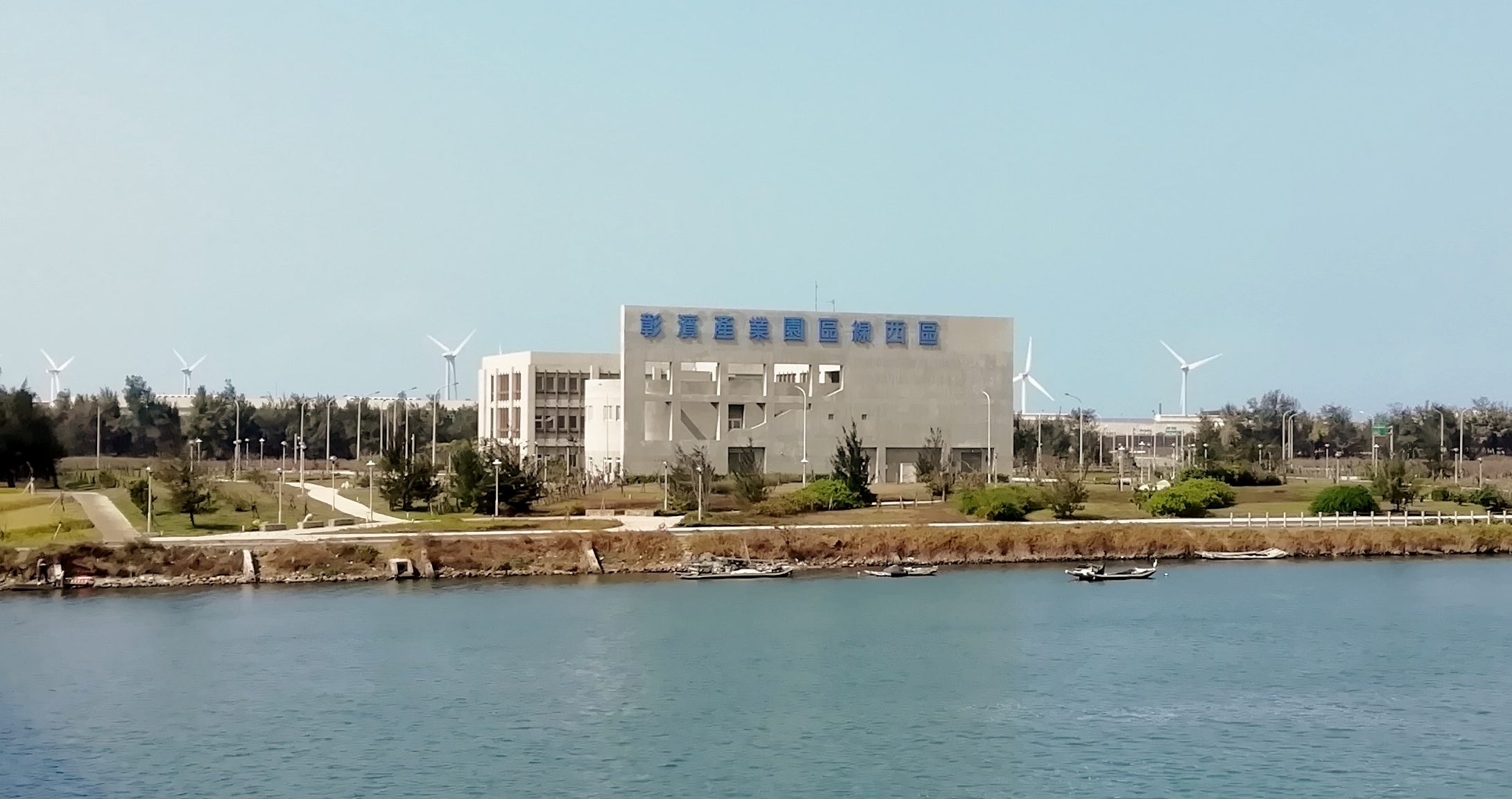 Changhua Coastal Industrial Park - Service center in Hsianhsi area